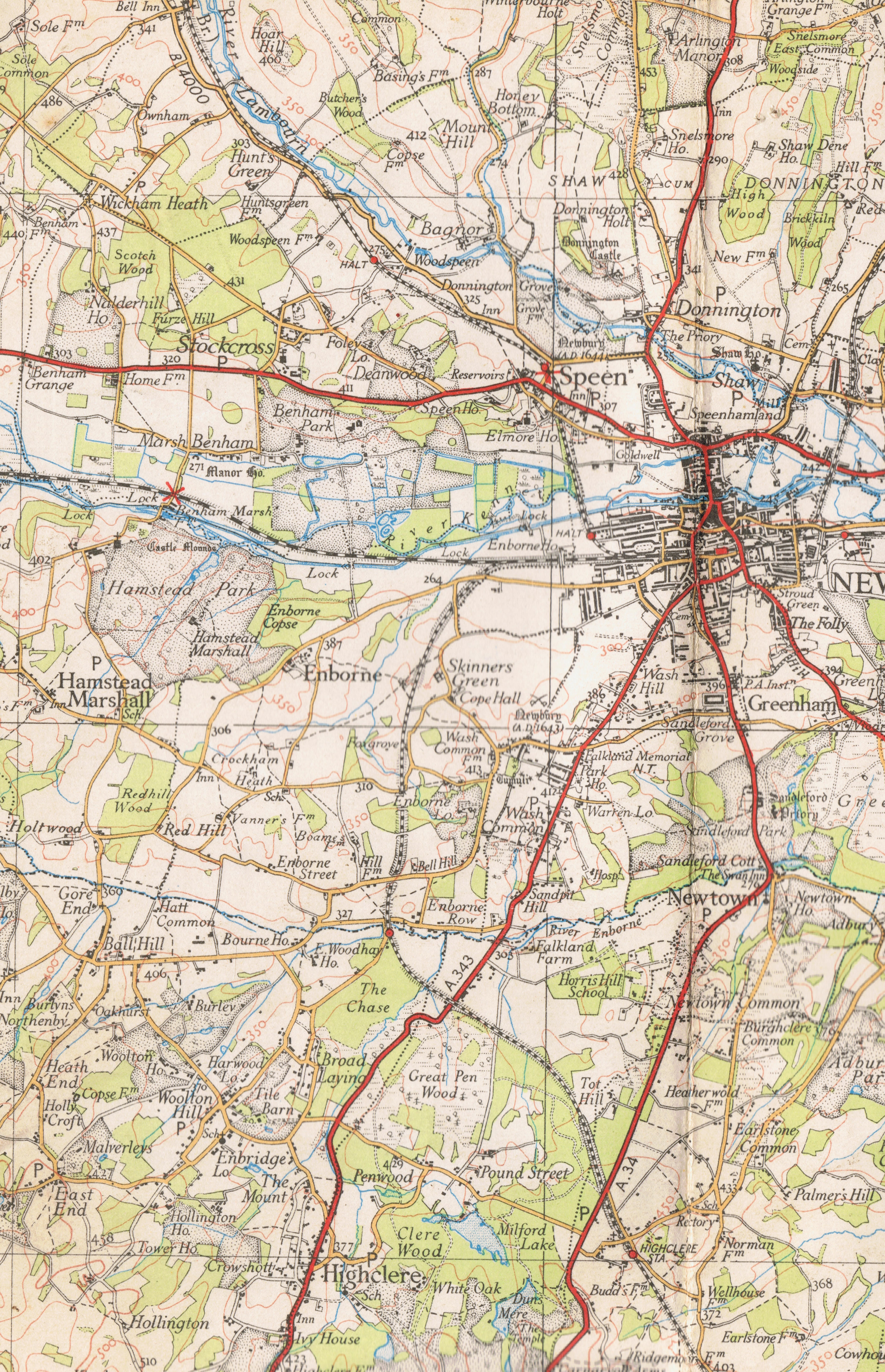 Scan (by me, R. de Salis, Rodolph (talk) 00:10, 10 March 2016 (UTC)) of East Woodhay and area from Ordnance Survey map of 1939.